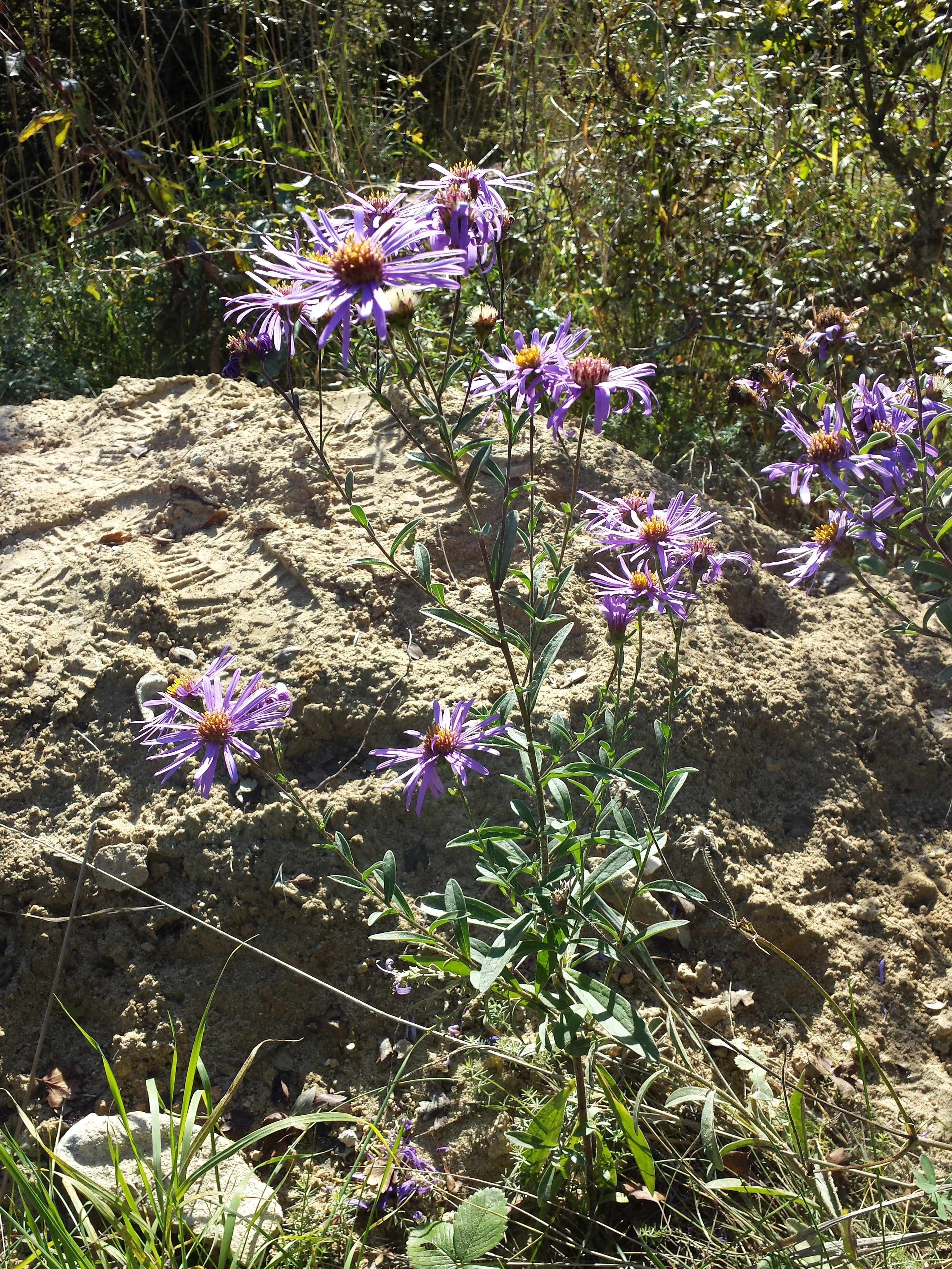 Habitus Taxon: Aster amellus (sensu Fischer et al. EfÖLS 2008) Location: Gebmannsberg, district Korneuburg, Lower Austria - ca. 300 m a.s.l. Habitat: dry grassland